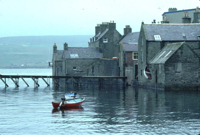 The Lodberries.